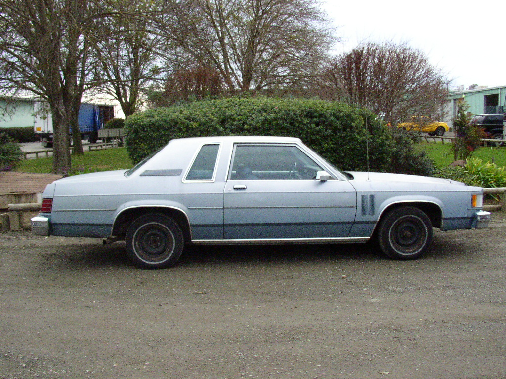 This is a passenger side picture I took, of My 1979 Mercury Marquis 2 Door Coupe.